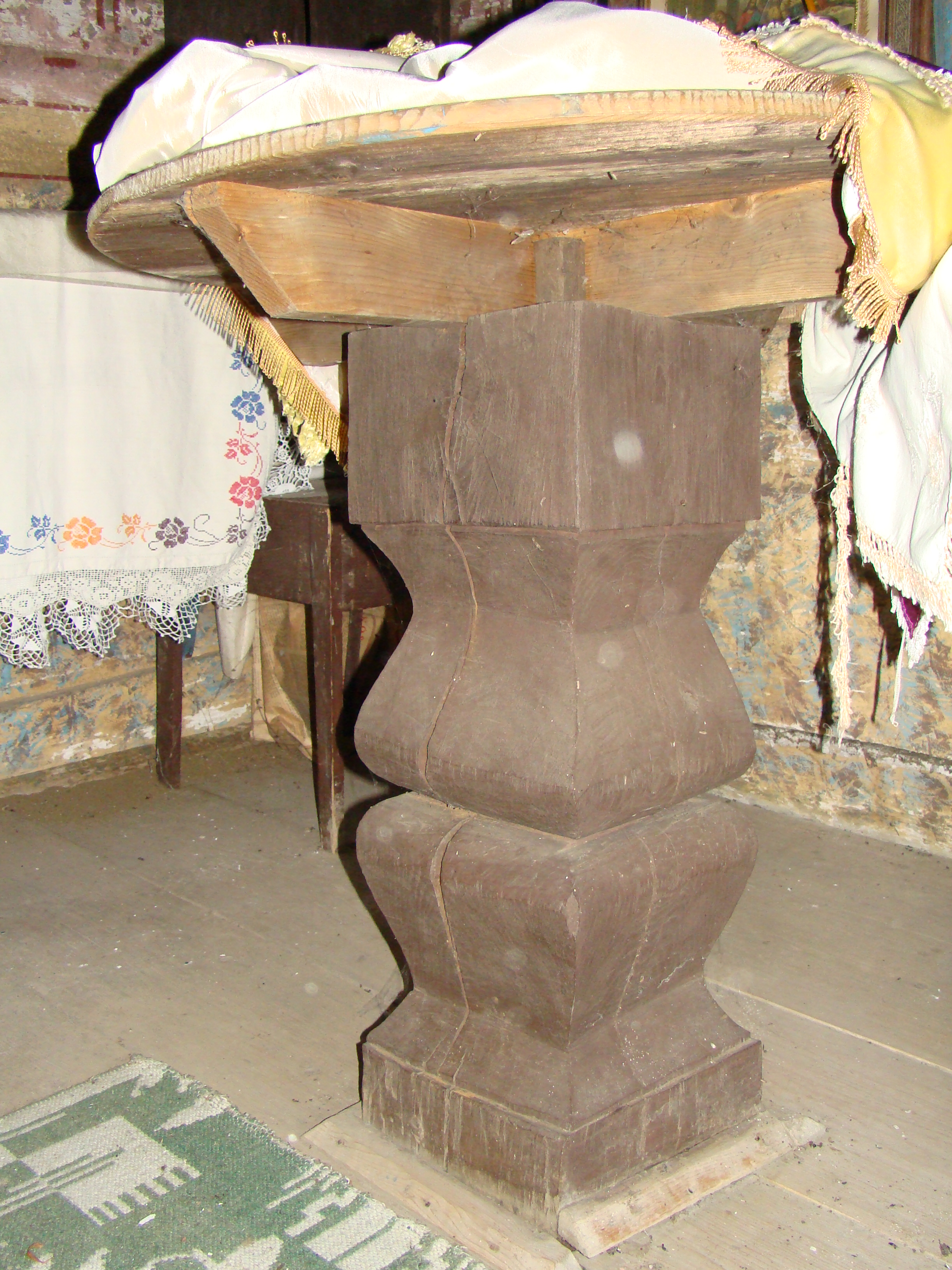 Wooden church in Apatiu, Bistrița-Năsăud county